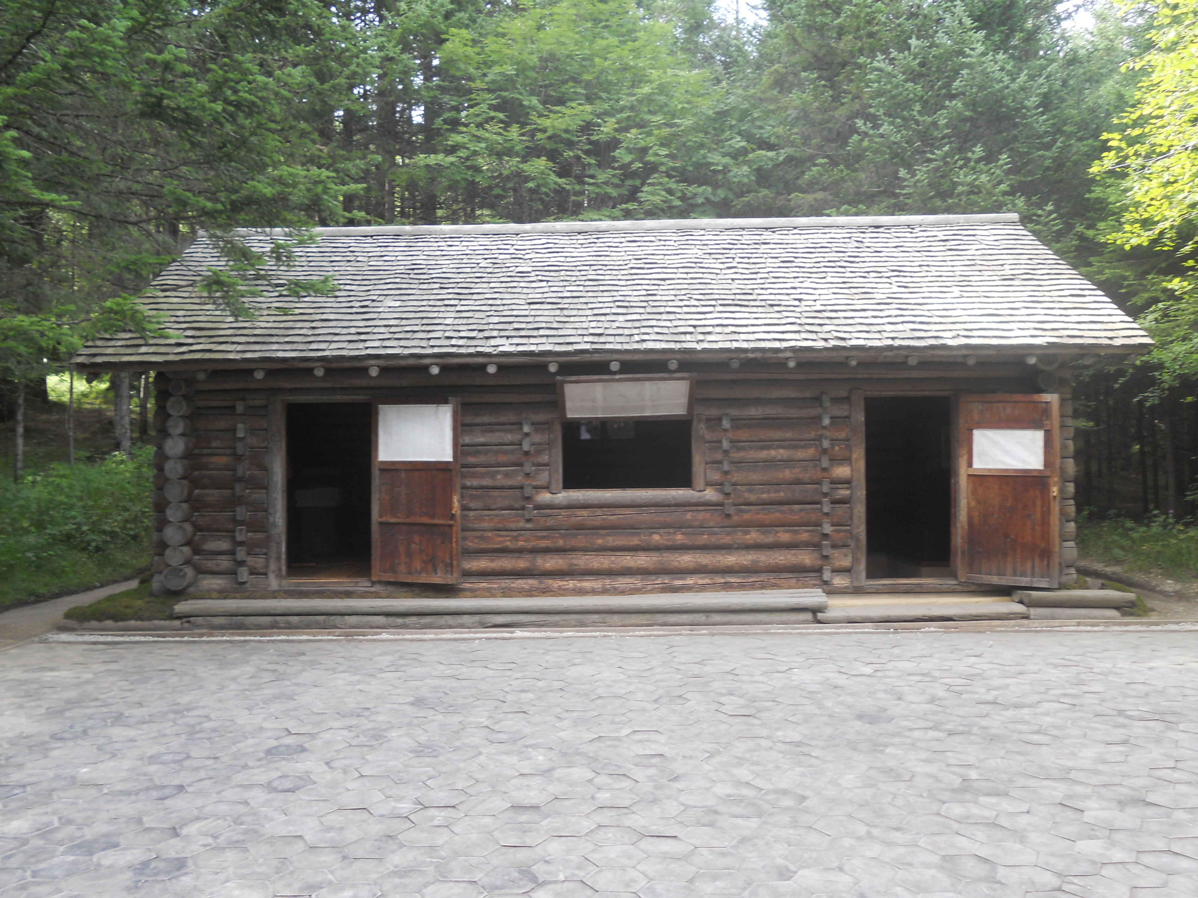 Paekdu Secret Camp Native Home, where Kim Jong-il was born.